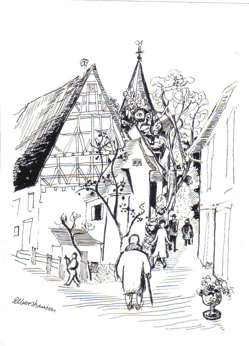 Albershausen, ink drawing, 20 x 30 cm